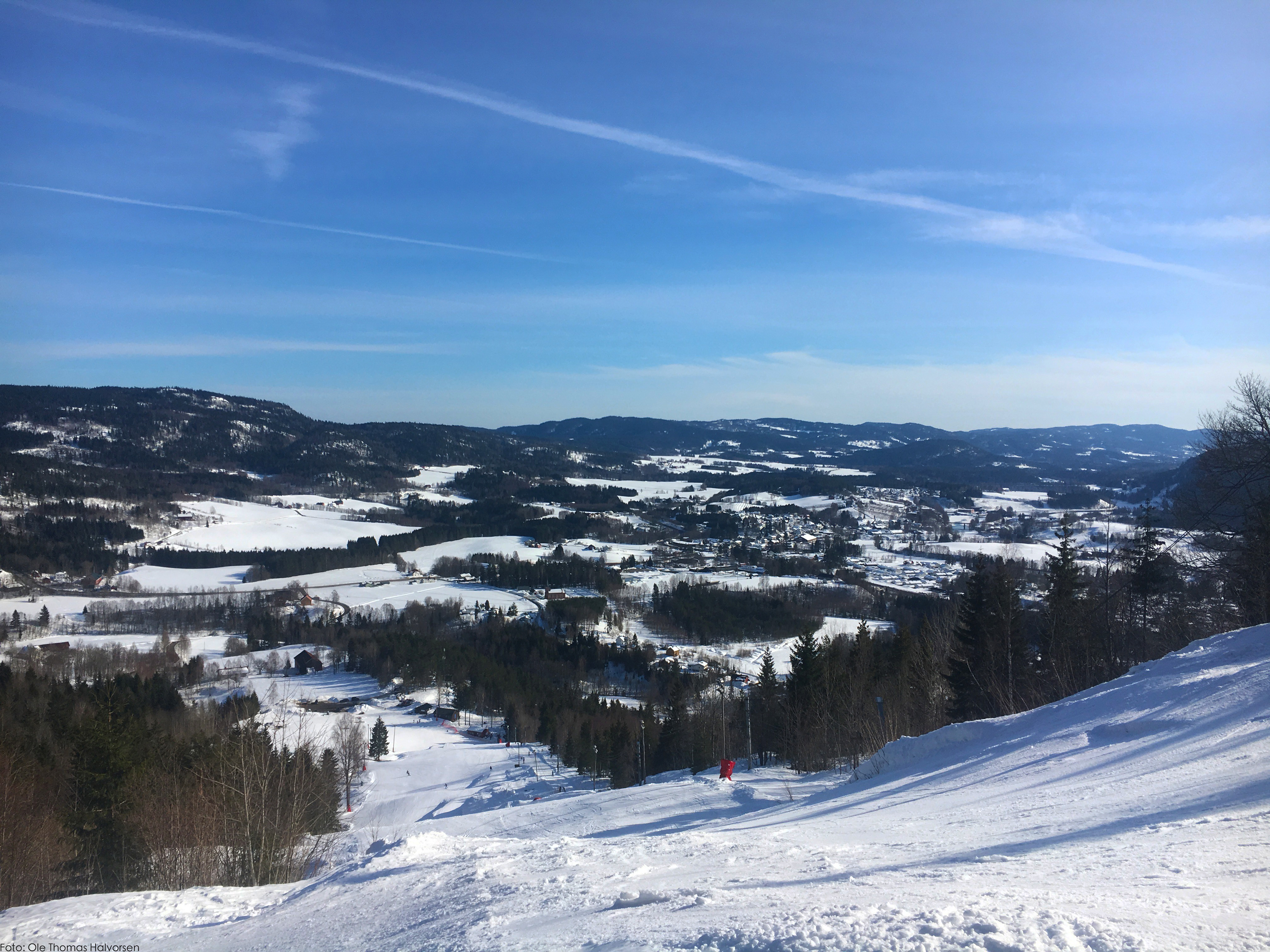 Bergerbakken 2018